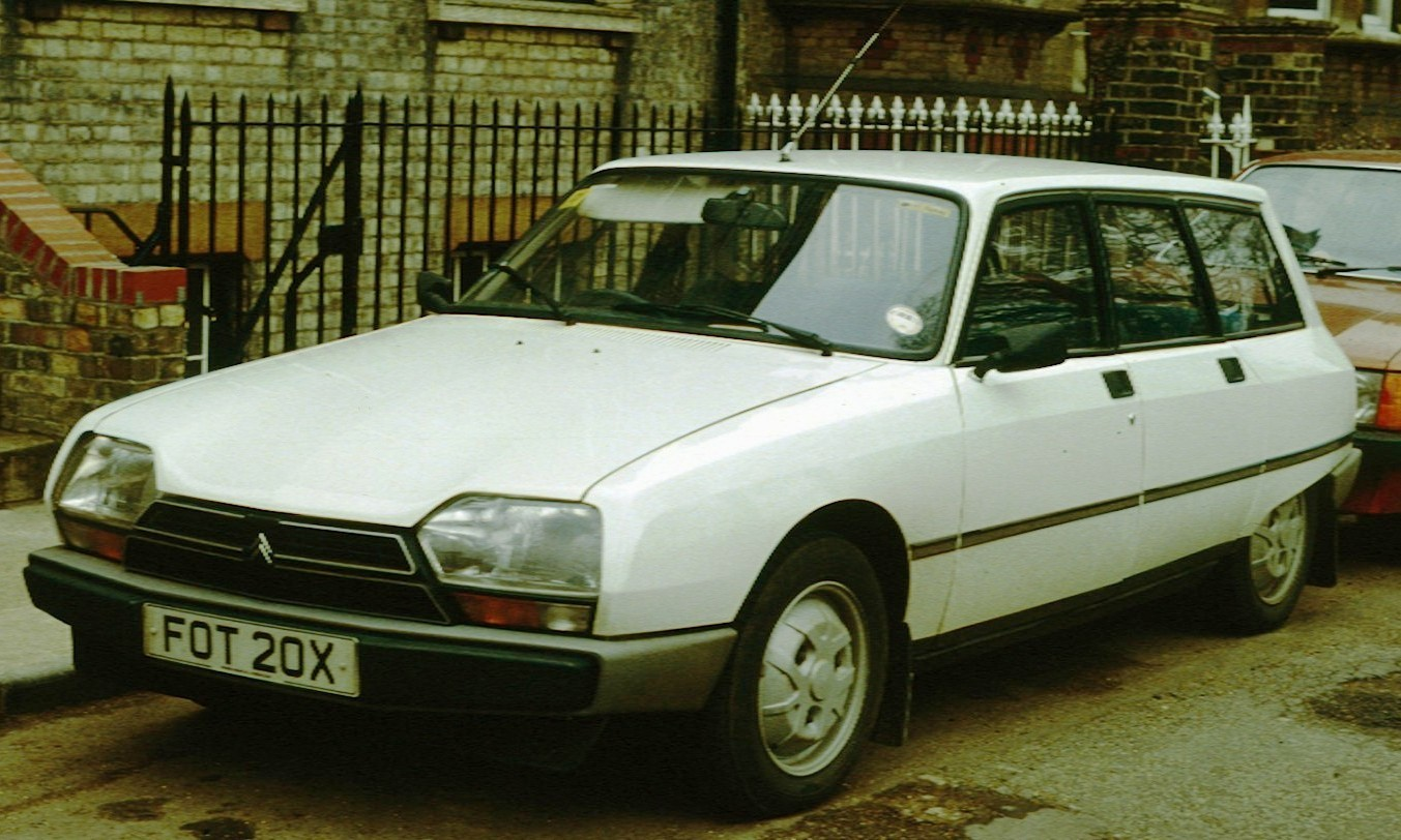 1981 Citroën GSA Break in Cambridge Registered August 1981 1299cc "untaxed" since 1998 or earlier